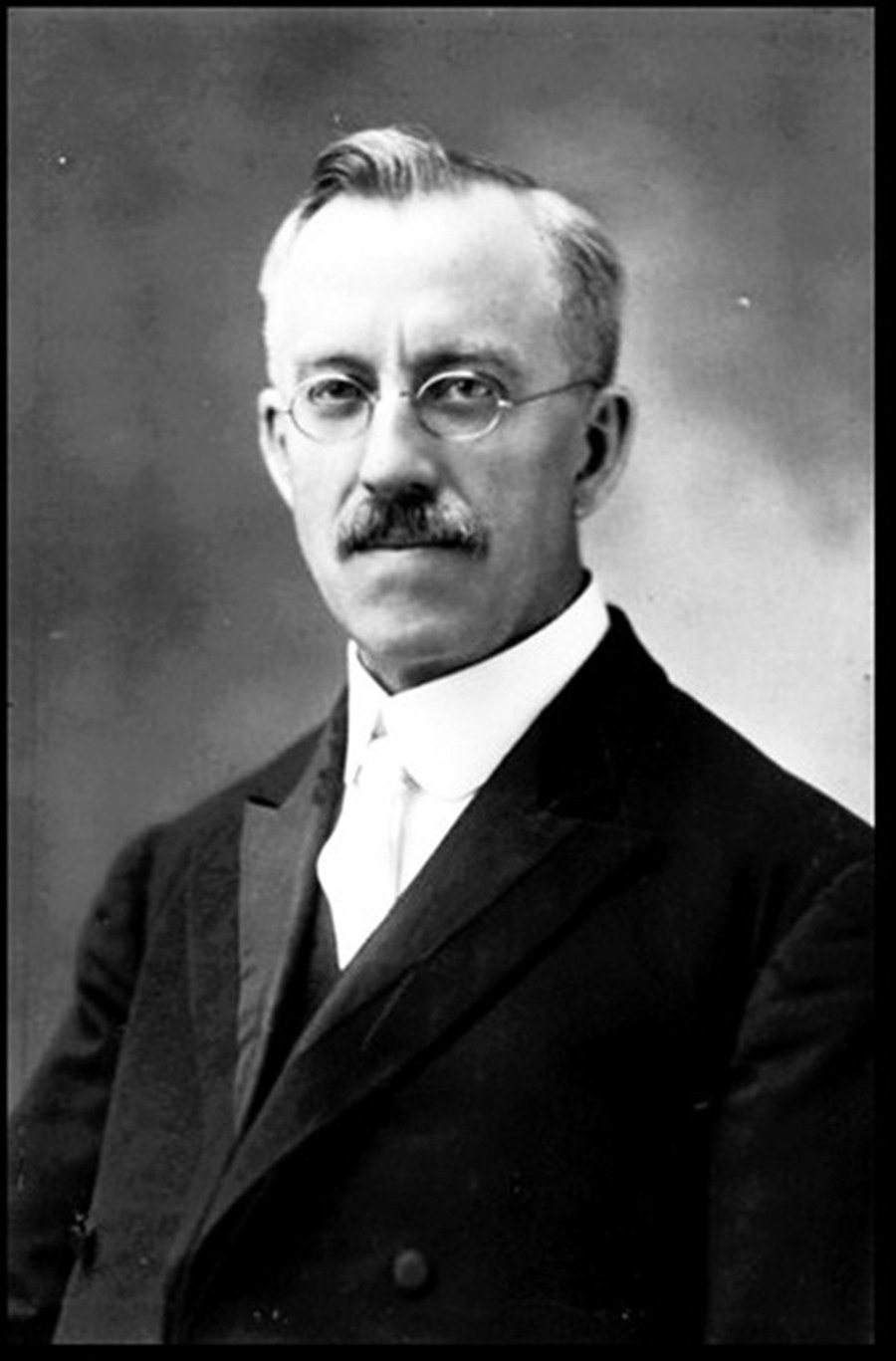 Portrait of Omar Leslie Kilborn